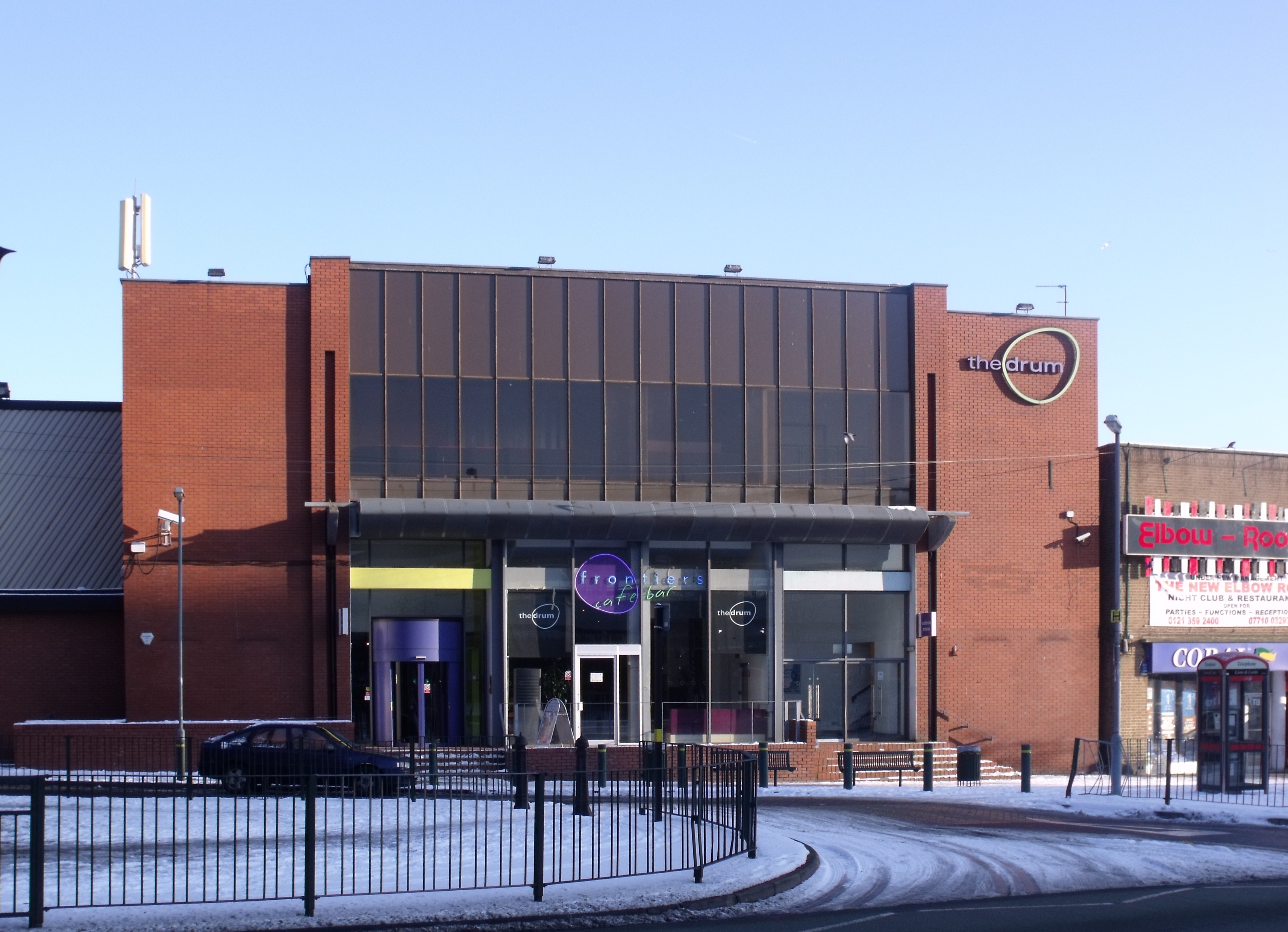 This is The Drum in the Newtown area of Birmingham (Aston ward). It is the national centre for Black British arts and culture. The Drum It is on the site of the long demolished Aston Hippodrome, which was built in 1908 and demolished in 1980.